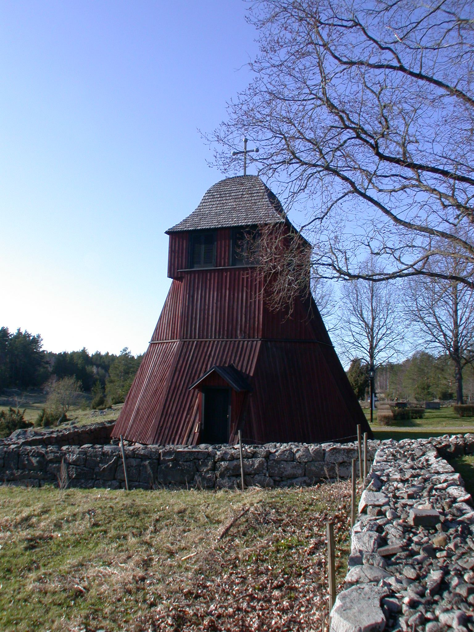 The belfry, Faringe church, Uppsala, Diocese of Uppsala, Sweden